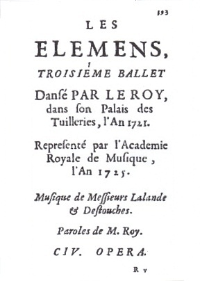 Title page of the libretto of Les élémens by André Cardinal Destouches and Michel Richard Delalande, from Recueil général des opéra, représentez par l'académie royale de musique, depuis son établissement, Tome XIII, Paris, Ballard, 1734